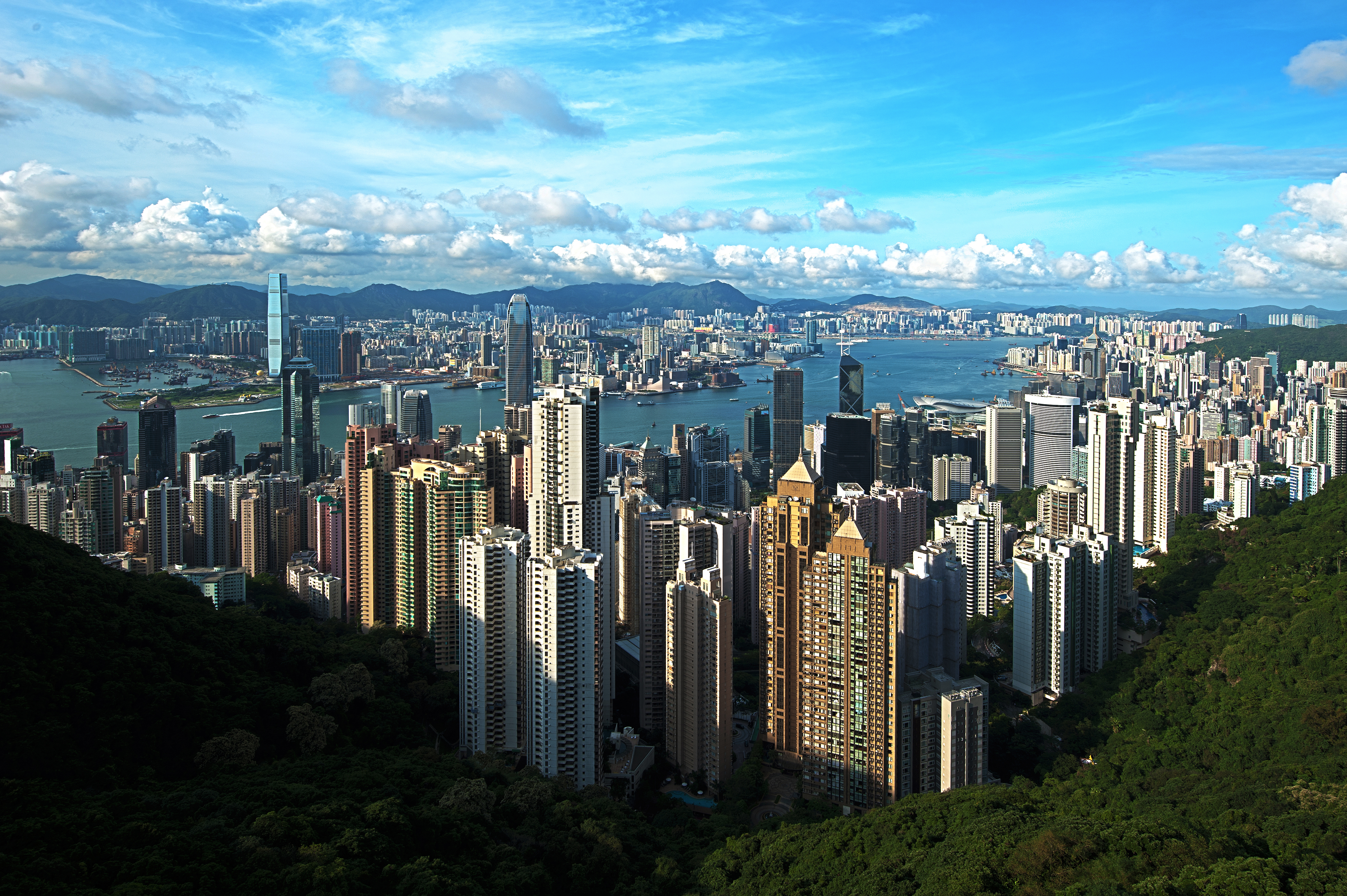 Hong Kong Kowloon Panorama Victoria Peak 2011